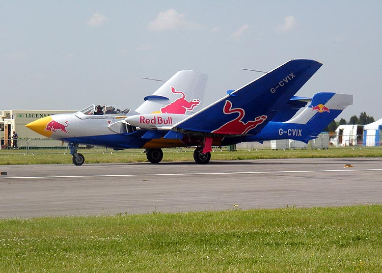 A privately-owned Sea Vixen taxiing with its wings partly folded. Original description: A privately-owned Sea Vixen (G-CVIX) taxies back from an air show flight, with wings partially folded. Photographed by Adrian Pingstone in June 2003 at Kemble Airfield, Gloucestershire, England, and released to the public domain.